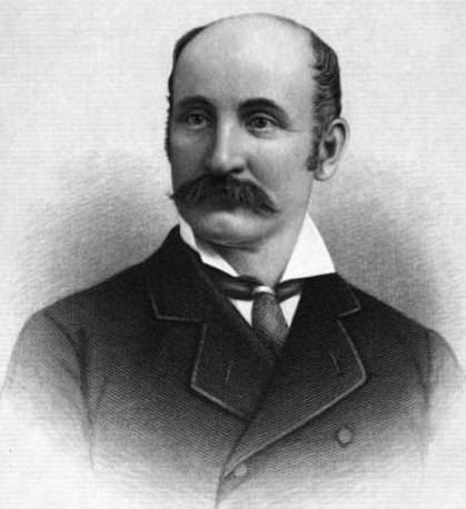 Joseph A. Scranton (Pennsylvania Congressman)